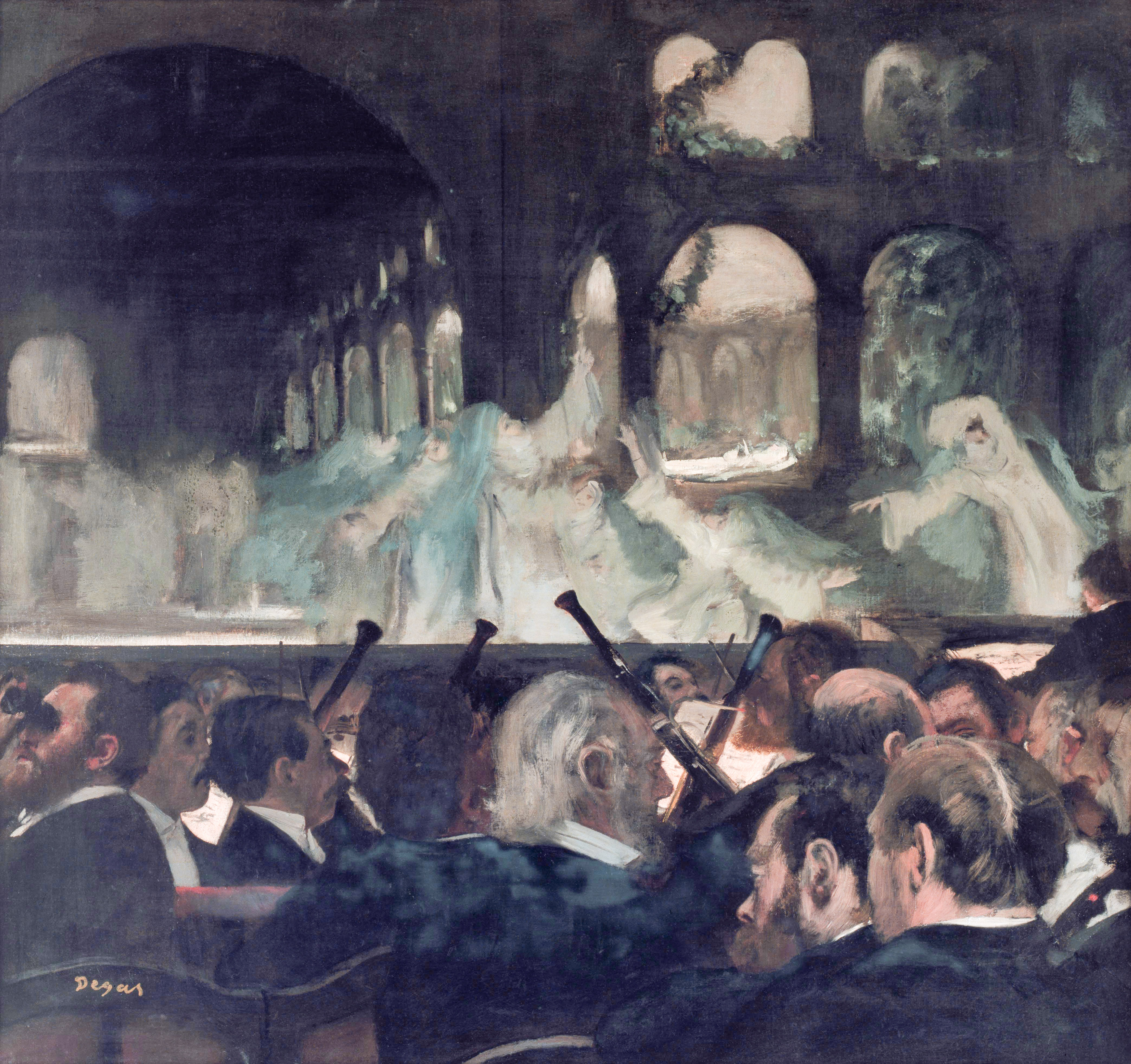 The Ballet Scene from Meyerbeer's Opera "Robert Le Diable" (Ballet of the nuns). Victoria and Albert Museum, museum no. CAI.19 (Link)